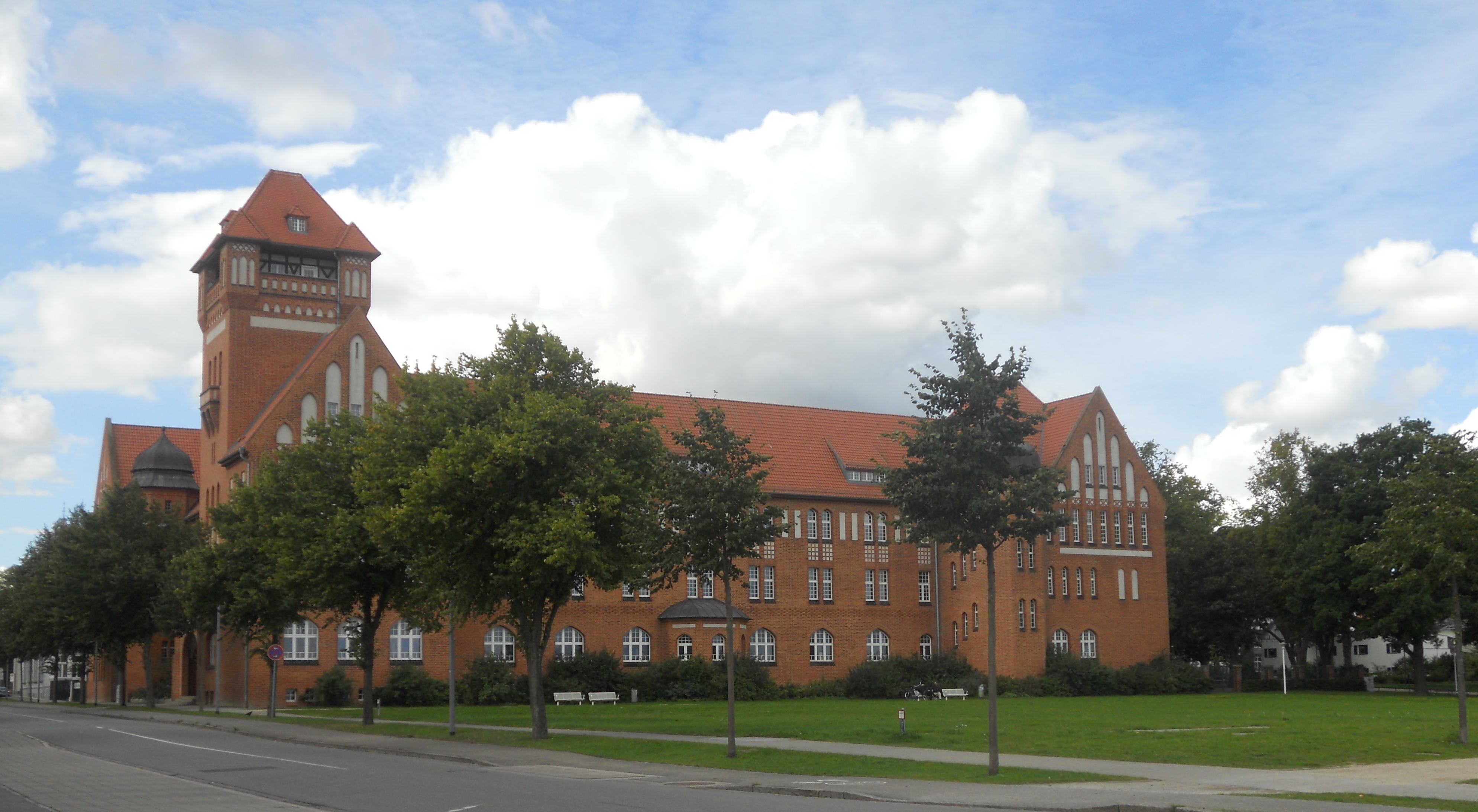 Hansa-Gymnasium in Stralsund